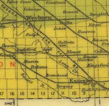 Detail from Canada Department of Mines map of Saskatchewan, reproduced circa 1914. Image taken from the amazing website project Saskatchewan GenWeb.